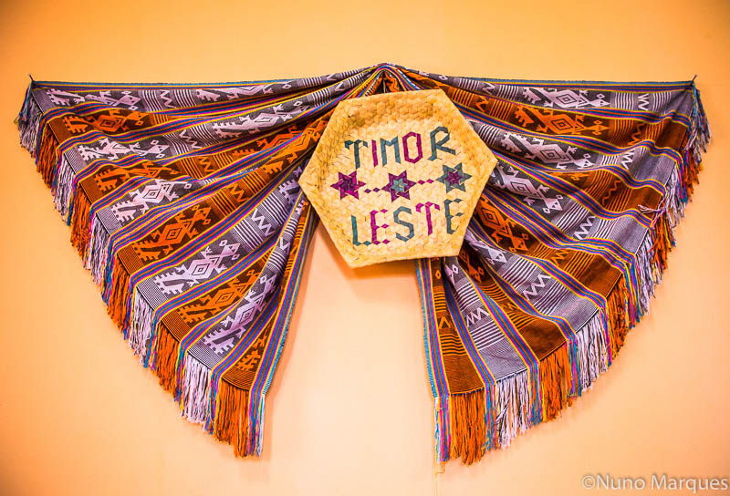 Tais is woven cloth that is worn in Timor-Leste and forms an important part of ceremonial occasions such as births, weddings and funerals. Tais weaving is considered to be women’s work and this skill was traditionally considered a prerequisite for marriage. This Tais made a beautiful wall decoration on tutuala's guest house.